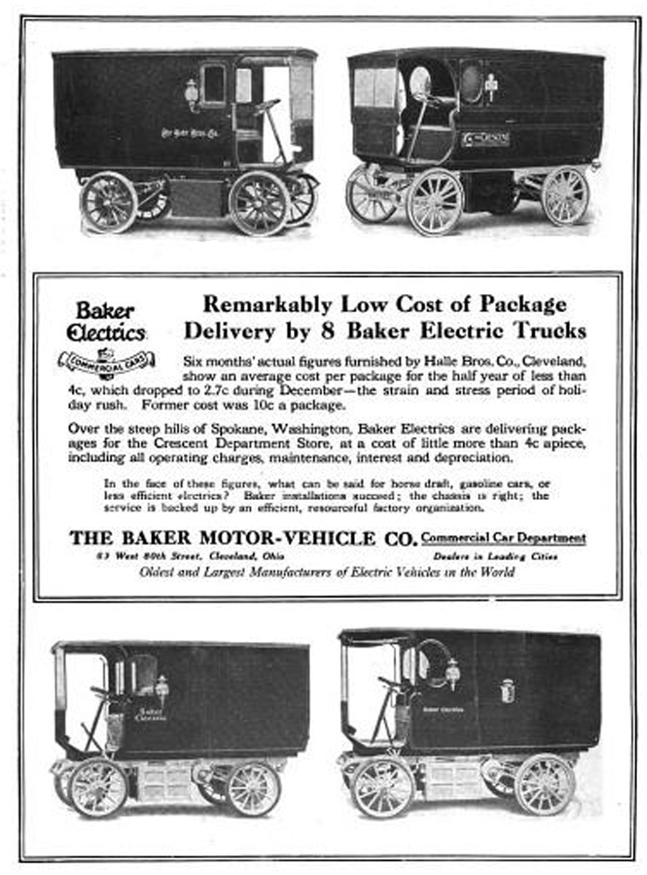 Advertisement 1912 - Baker Electric Motor-Vehicles Co. of Cleveland, Ohio - Commercial Car Department